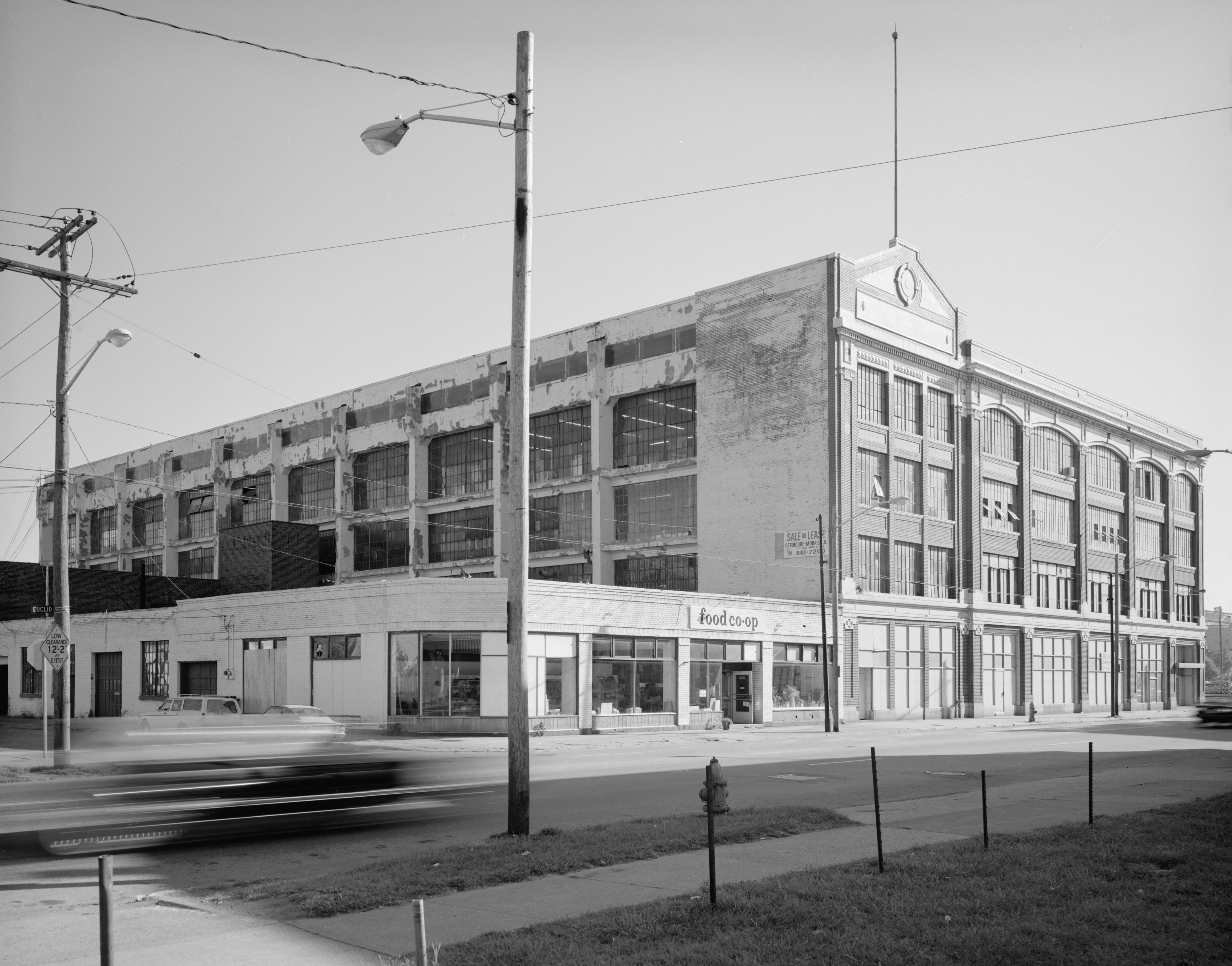 National Register of Historic Places in Ohio. Ford Motor Company, Cleveland Branch Assembly Plant, Euclid Avenue & East 116th Street, Cleveland, Cuyahoga County, Ohio, Assembly Plant, craneway and facade, looking southwest.